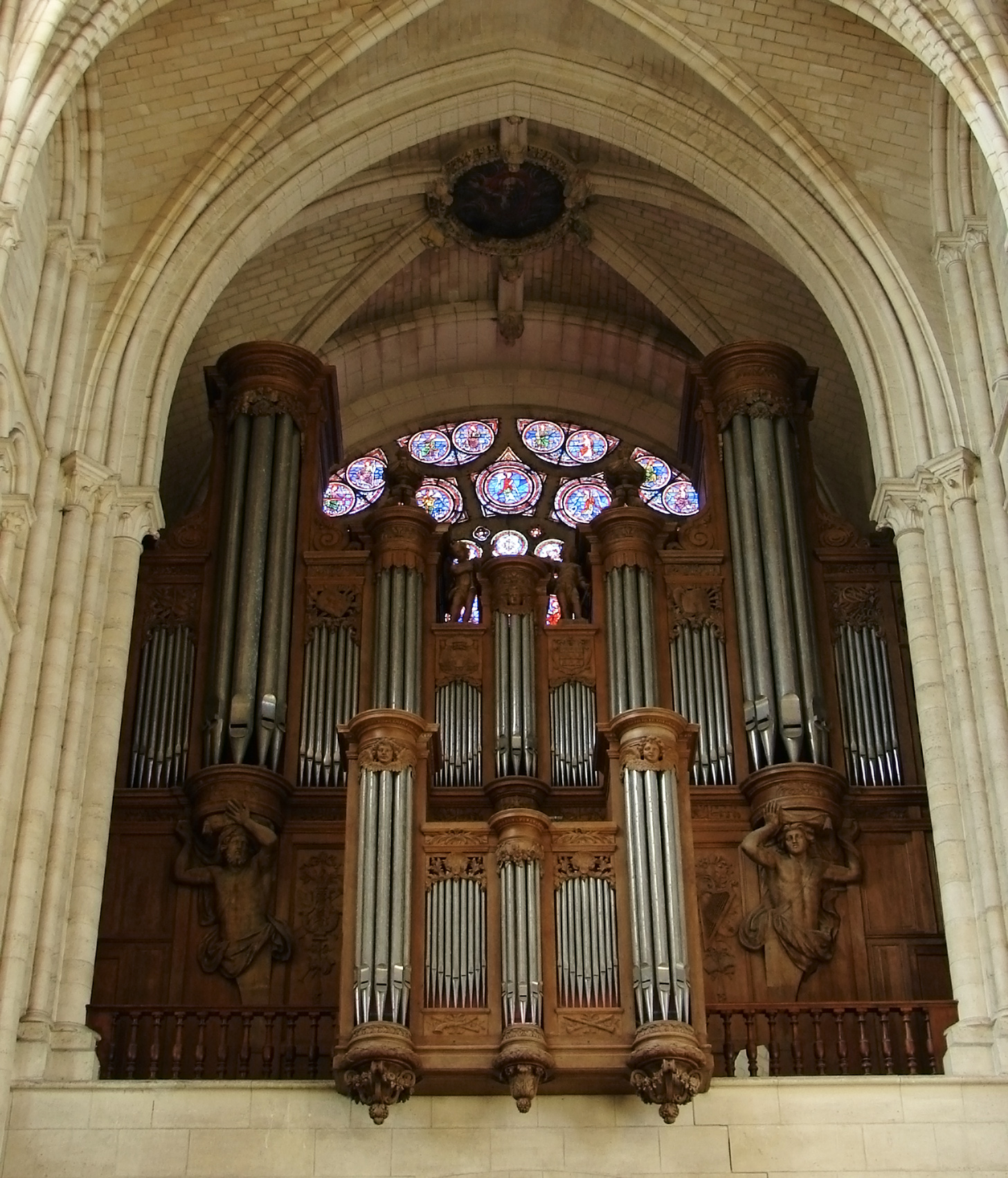 Organ in Laon Cathedral.